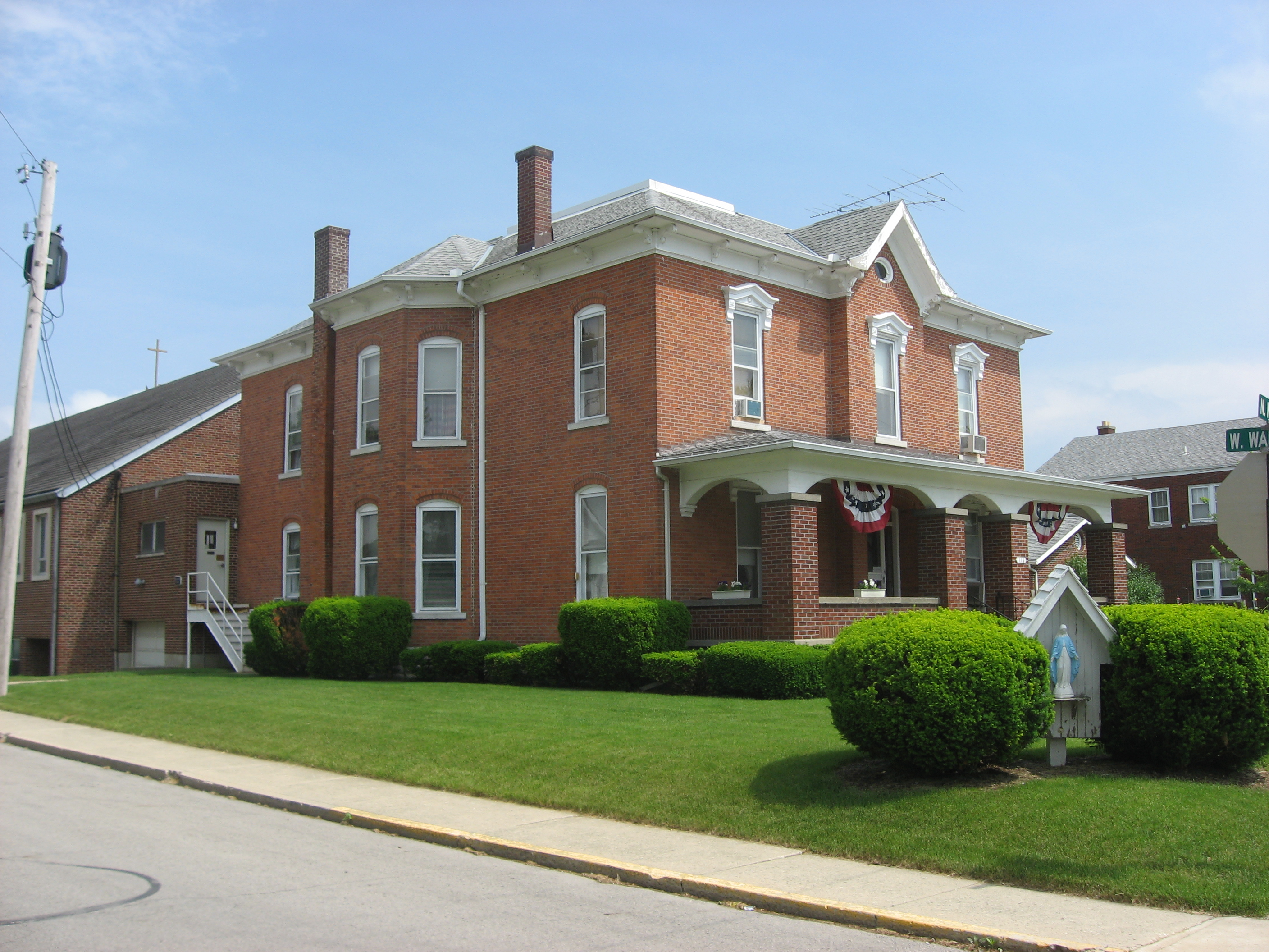 Front and northern side of the Immaculate Conception Rectory at Botkins, located at 116 N. Mill Street in Botkins, Ohio, United States. Rear of the attached Immaculate Conception Church is visible on the left side of the picture. Built in 1887, the house was listed on the National Register of Historic Places as a part of the Cross-Tipped Churches of Ohio Thematic Resources.